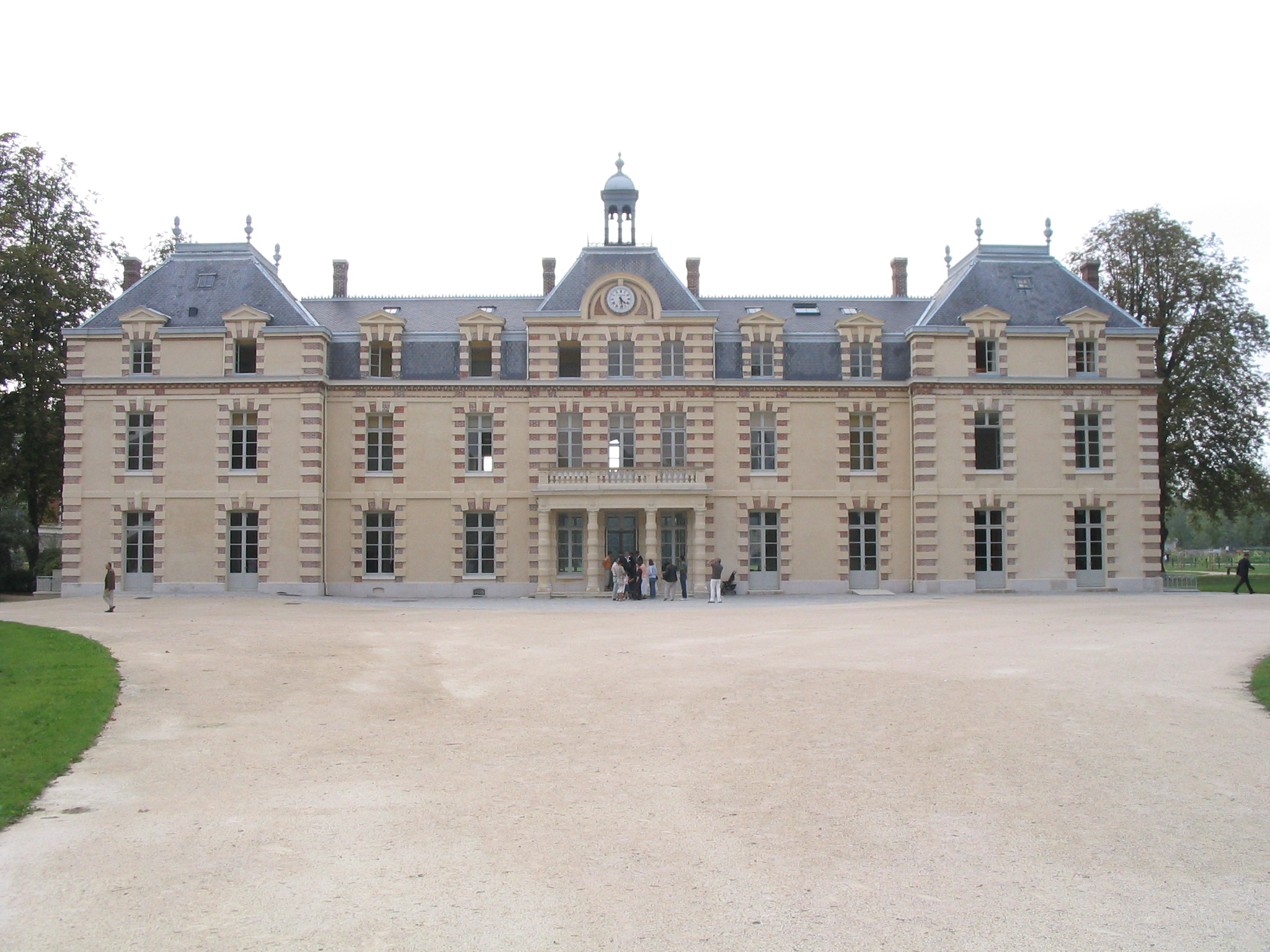 Château de la Grange à Savigny-le-Temple. This property was owned by the future king of Sweden, Charles XIV John of Sweden, from 1800 until 1810, he sold it when he became heir of the Swedish throne.